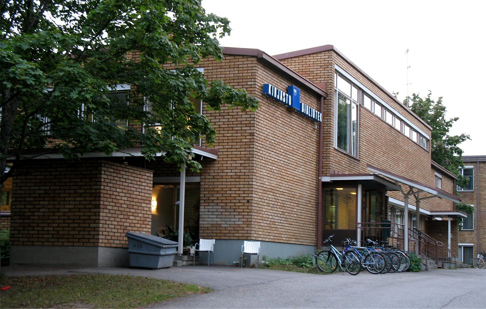 Helsinki city library in Etelä-Haaga, in the Etelä-Haaga district of Helsinki, Finland.